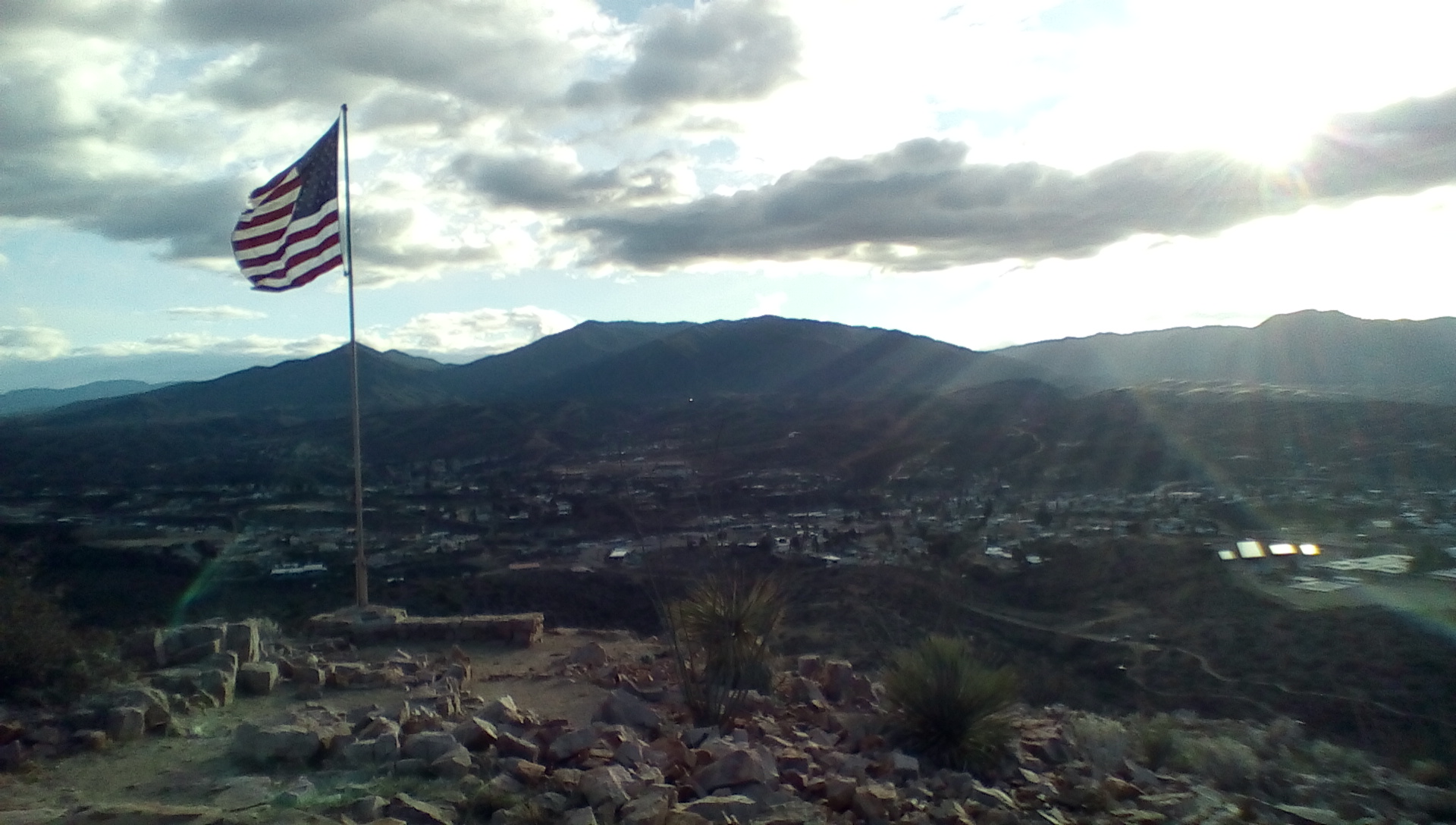 A view of the Pinal Mountains, seen from atop Round Mountain just north of Globe, Arizona, picture taken facing south.